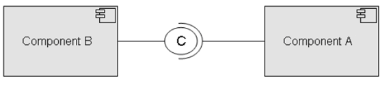 Component Diagram